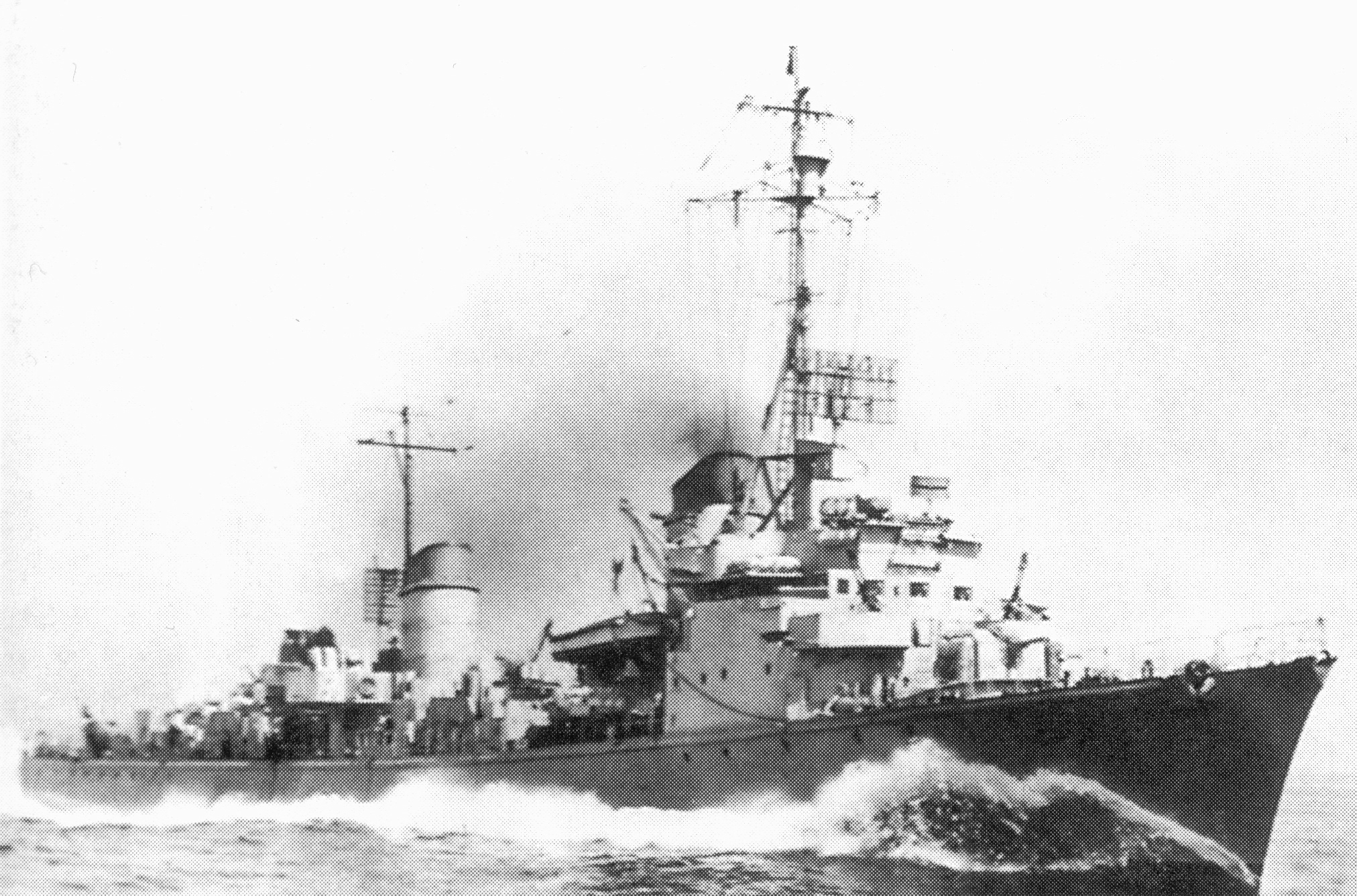 Former T35 as DD 935 in US seas, August 1945